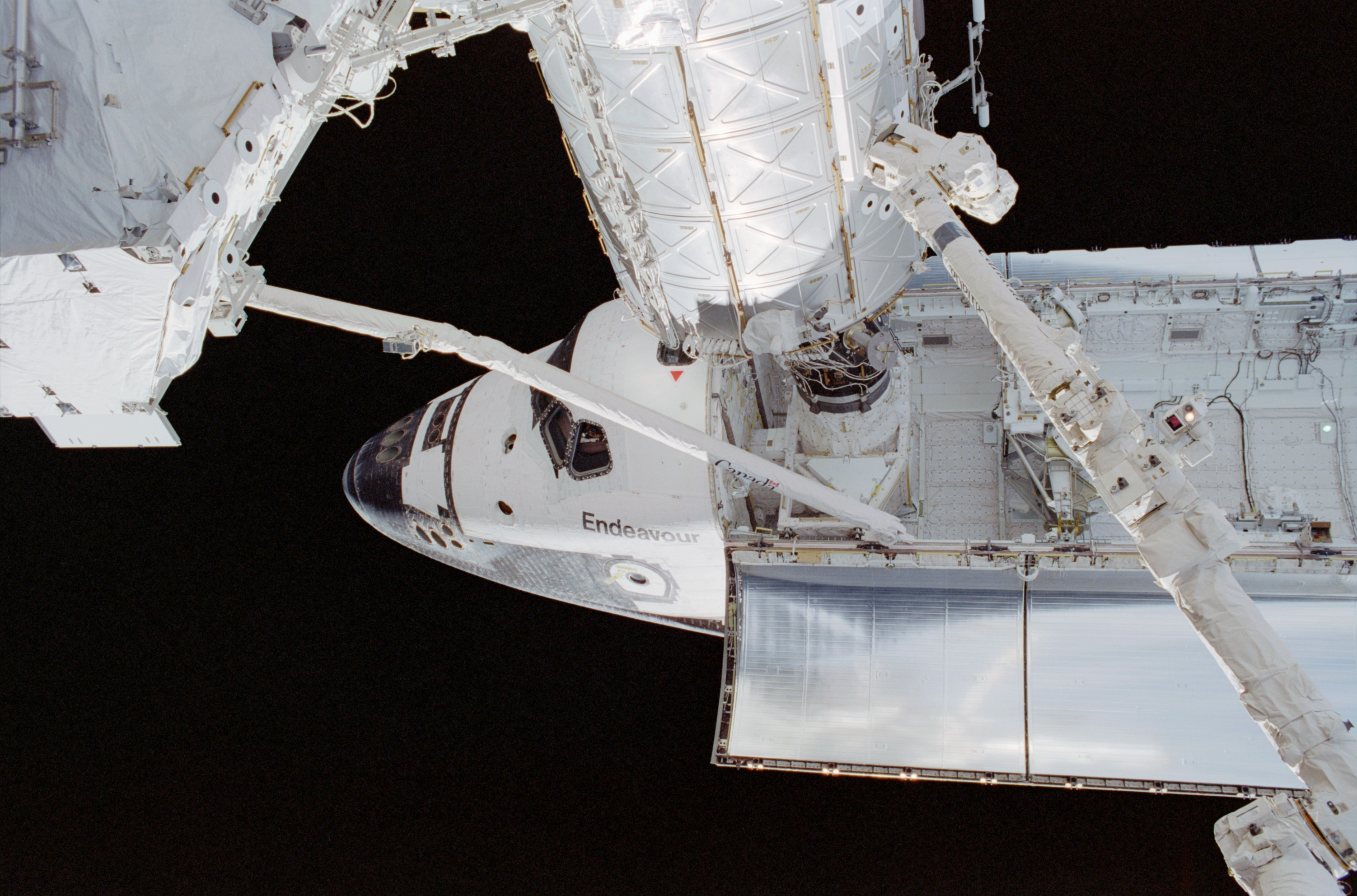 Backdropped by the blackness of space, the Space Shuttle Endeavour is pictured while docked to the Pressurized Mating Adapter (PMA-2) at the forward end of the Destiny laboratory on the International Space Station (ISS). A portion of the Canadarm2 is visible on the right and Endeavour’s robotic arm is in full view as it is stretched out with the S0 (S-zero) Truss at its end.